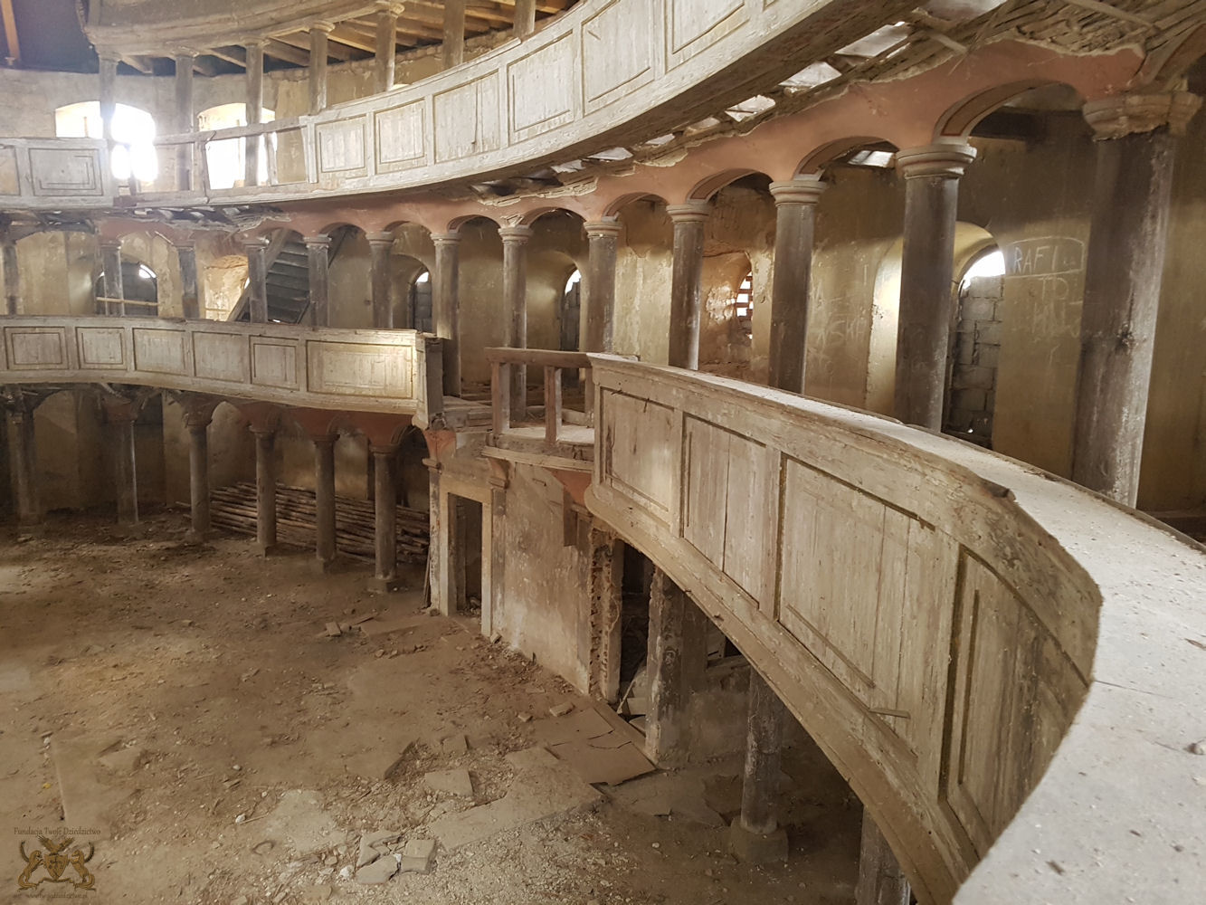 Żeliszów church